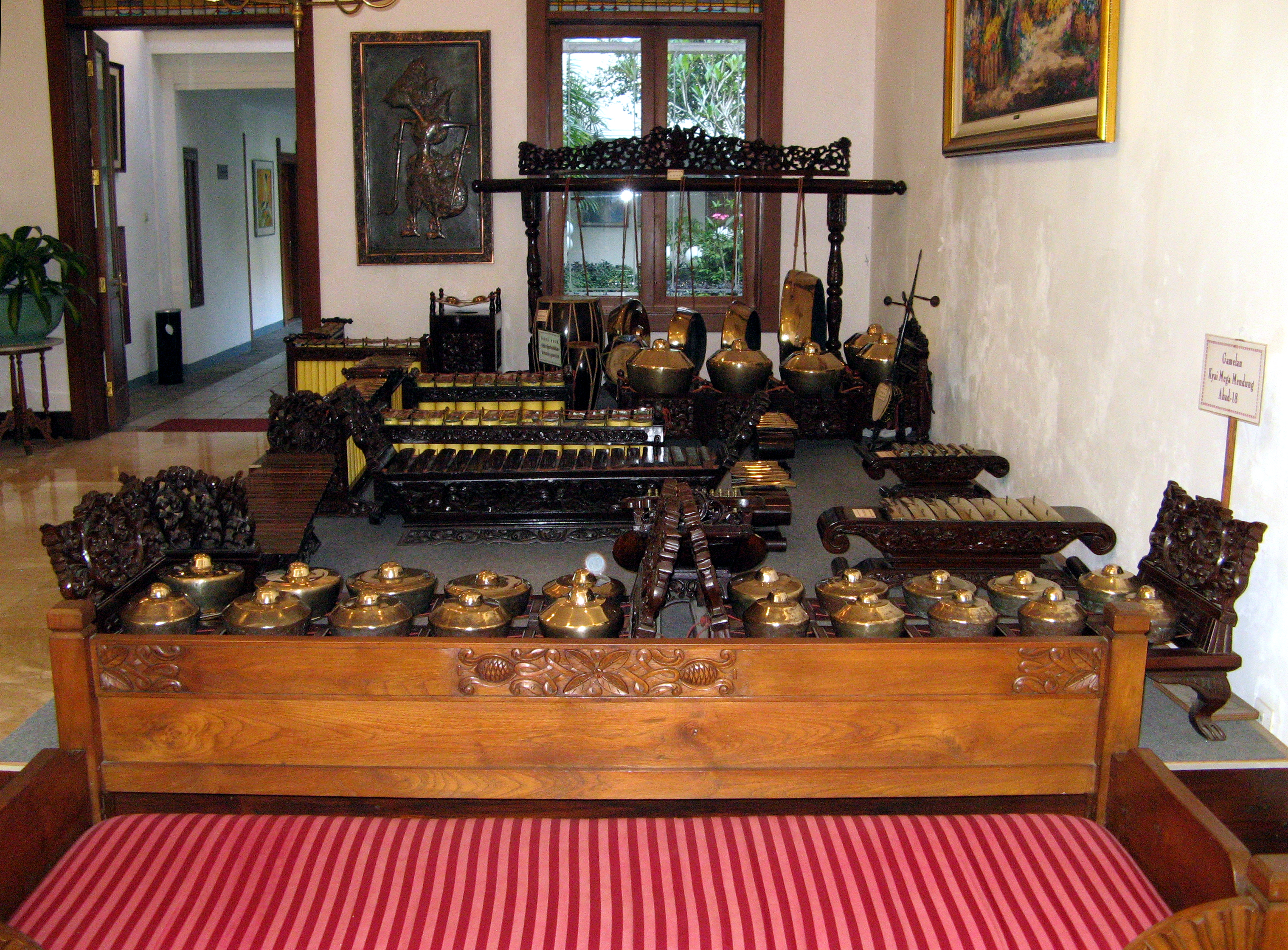 The sign, at photo right, reads: "Gamelan Kyai Mega Mendung, Abad-18." However, the actual 18th century Kyai Mega Mendung Gamelan is kept in the Sono Budoyo Museum in Yogyakarta. So the sign must mean that this gamelan is a copy of, or modeled upon, the museum original.